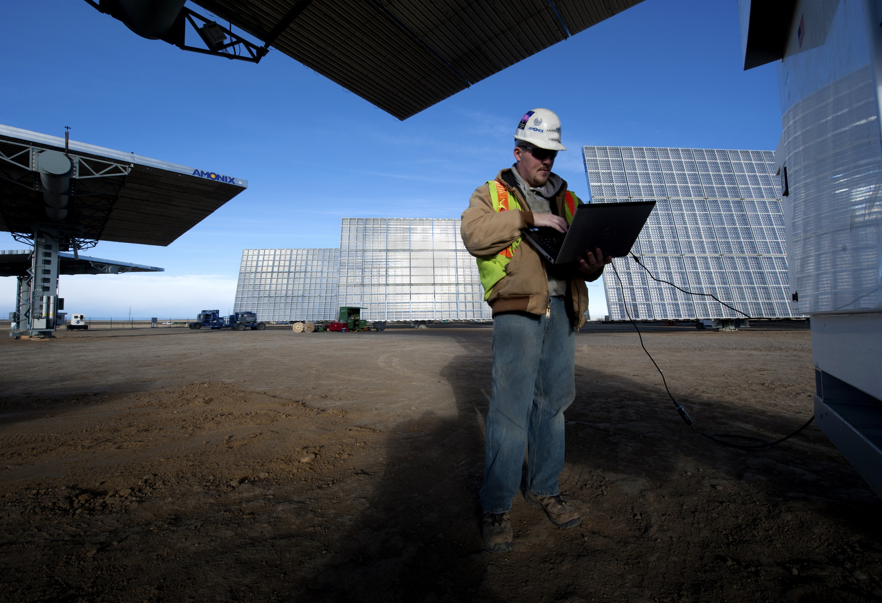 Adam Modert, with Mortenson Construction uses specialized software to focus Amonix 7700 concentrated photovoltaic panels. The Amonix 7700 is the first terrestrial photovoltaic system capable of converting one-fourth of the sun's energy into usable electricity. Photo by Dennis Schroeder.